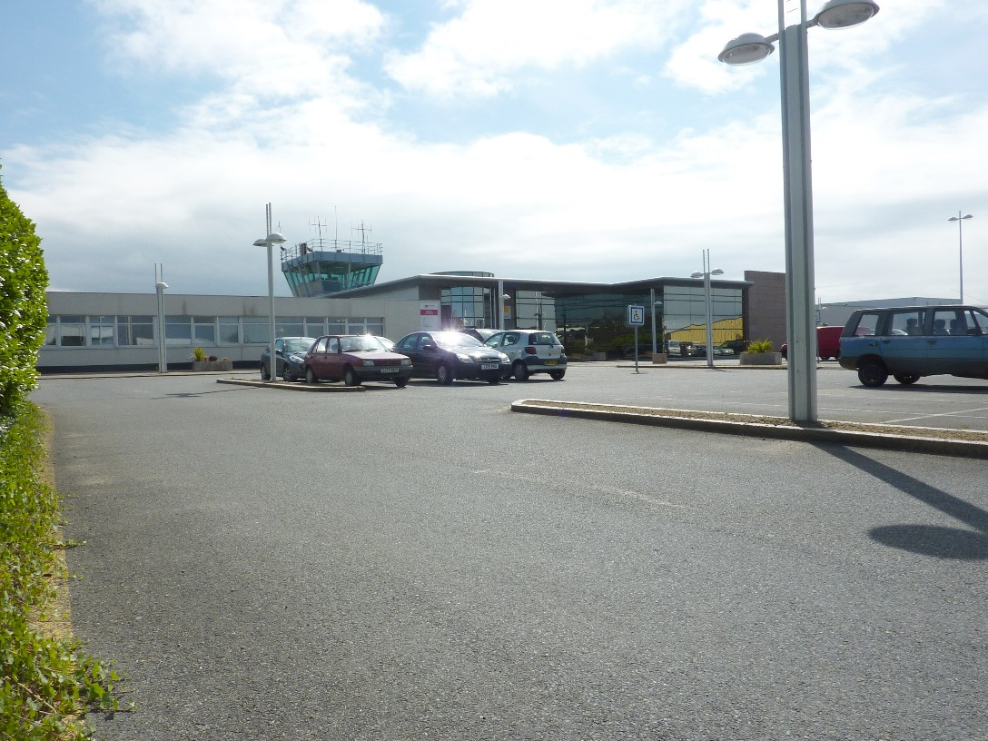 View of the airport from the parking